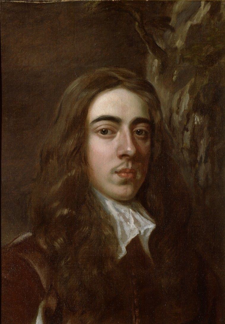 Arthur Capell, 1st Earl of Essex (1631-1683)